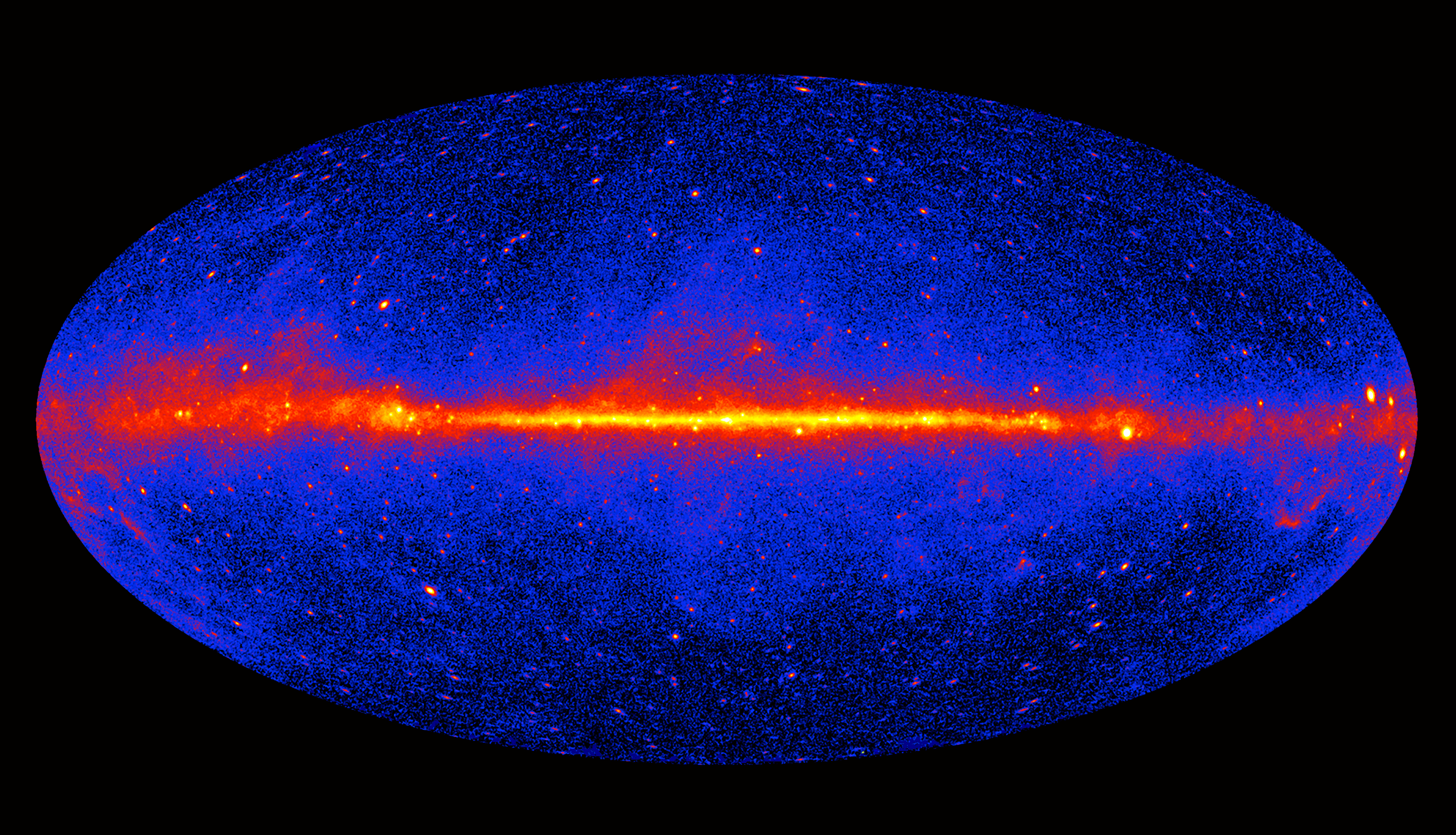 After more than three years in space, NASA's Fermi Gamma-ray Space Telescope is extending its view of the high-energy sky into a range that to date has been largely unexplored territory. Now, the Fermi team has presented its first "head count" of sources in this new realm. Fermi's Large Area Telescope (LAT) scans the entire sky every three hours, continually deepening its portrait of the sky in gamma rays, the most extreme form of light. While the energy of visible light falls between about 2 and 3 electron volts, the LAT detects gamma rays with energies ranging from 20 million electron volts (MeV) to more than 300 billion (GeV). But at higher energies, gamma rays are few and far between. Above 10 GeV, even Fermi's LAT detects only one gamma ray every four months from some sources. The LAT's predecessor, the EGRET instrument on NASA's Compton Gamma Ray Observatory, detected only 1,500 individual gamma rays in this range during its nine-year lifetime, while the LAT detected more than 150,000 in just three years. Any object producing gamma rays at these energies is undergoing extraordinary astrophysical processes. More than half of the 496 sources in the new census are active galaxies, where matter falling into a supermassive black hole powers jets that spray out particles at nearly the speed of light. Fermi's view of the gamma-ray sky continually improves. This image of the entire sky includes three years of observations by Fermi's Large Area Telescope (LAT). It shows how the sky appears at energies greater than 1 billion electron volts (1 GeV). Brighter colors indicate brighter gamma-ray sources. A diffuse glow fills the sky and is brightest along the plane of our galaxy (middle). Discrete gamma-ray sources include pulsars and supernova remnants within our galaxy as well as distant galaxies powered by supermassive black holes.